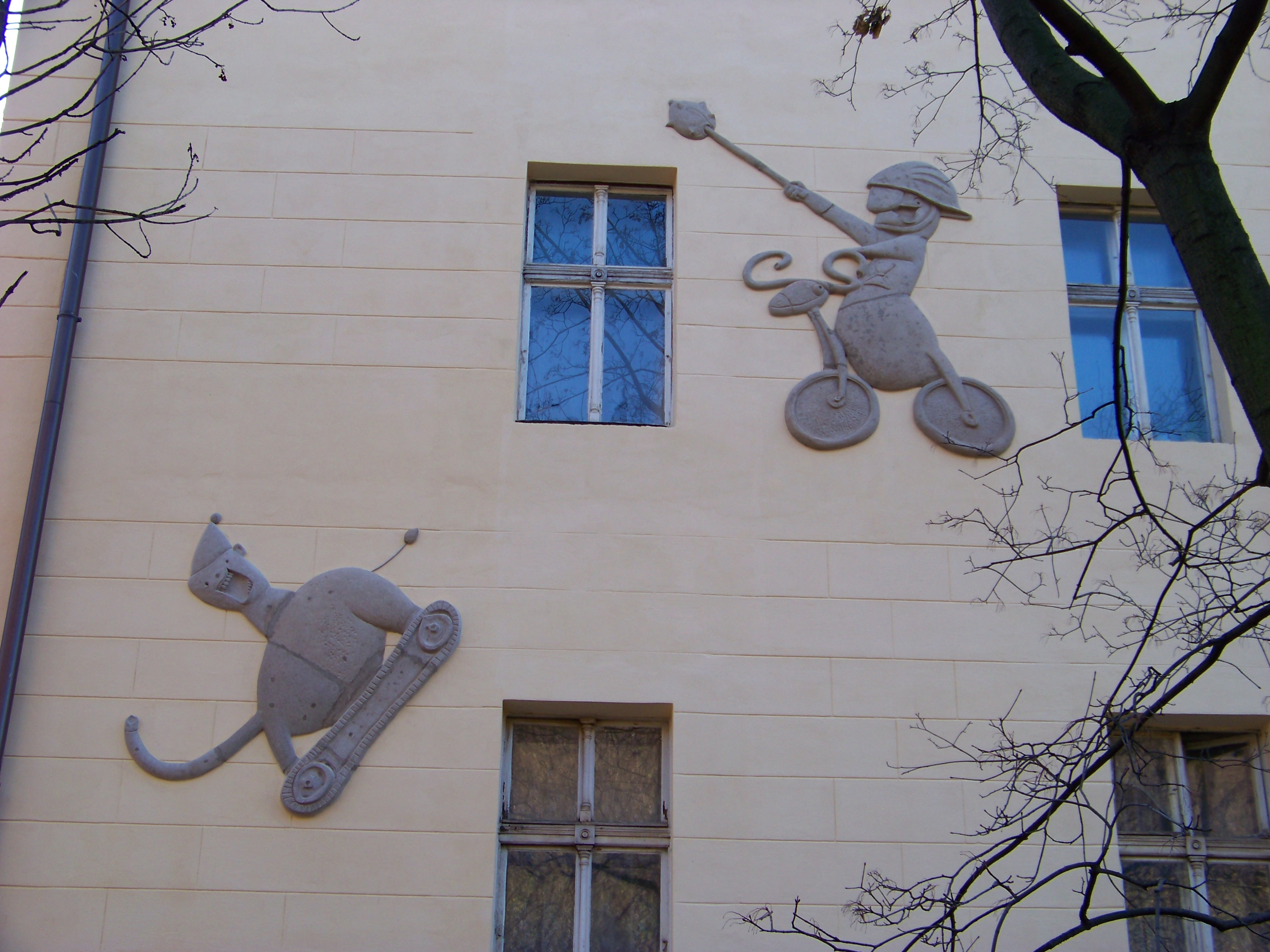 Prague-Žižkov. A view from the bikeway on the former railway track Prague–Turnov. A relief on the building of the pub "U vystřelenýho oka".